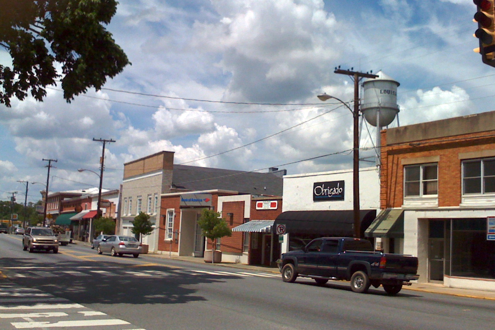 Main Street, Louisa, Virginia.